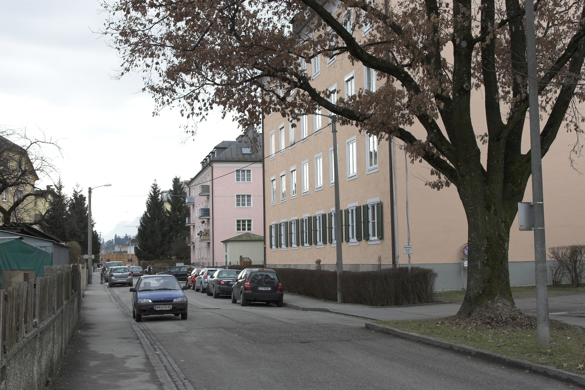 The Ischlerbahn Straße near Salzburg's main railway station. Until 1957 the tracks of the narrow gauge railway to Bad Ischl ran along that street.